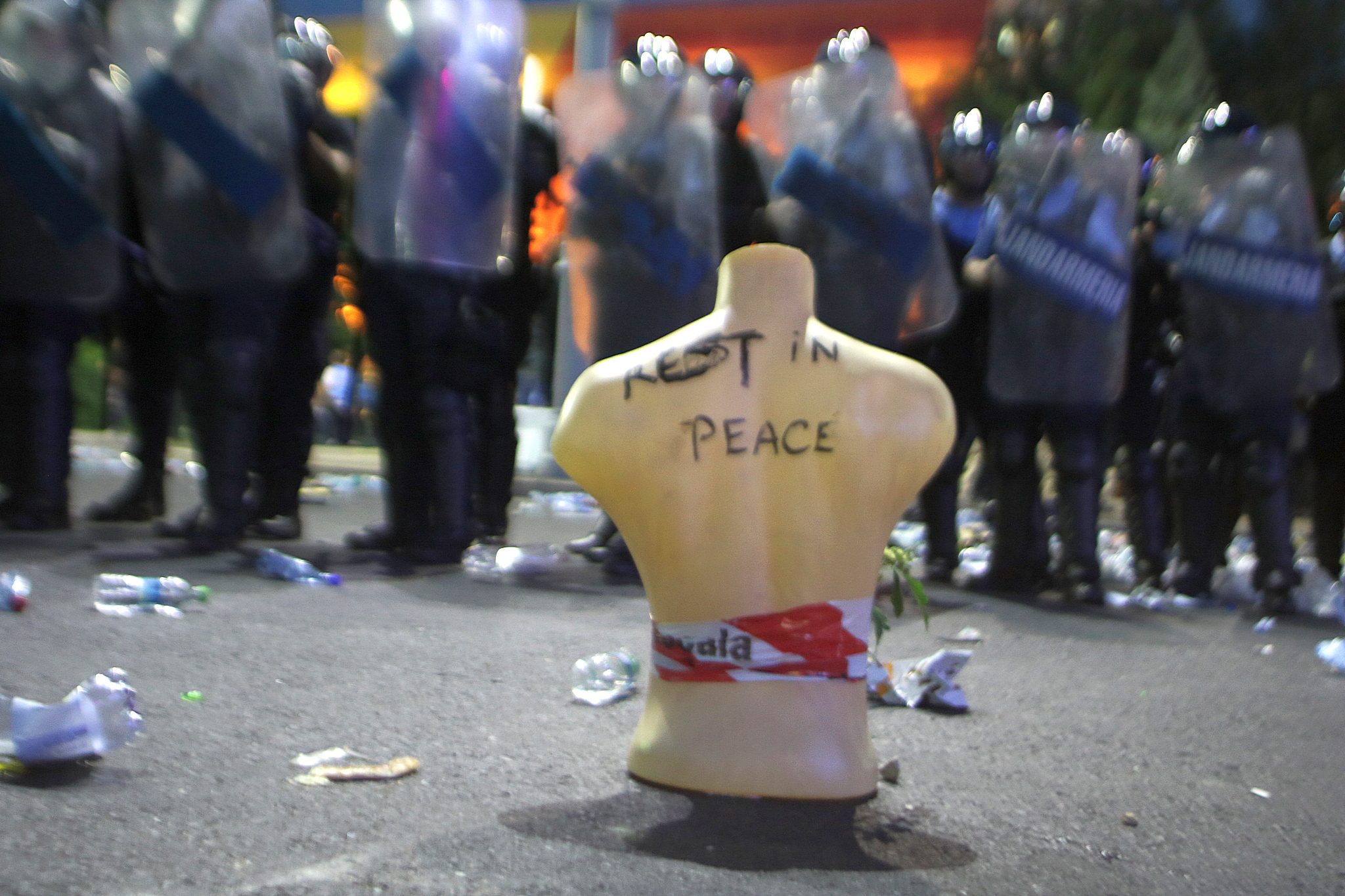 Riots during an antigovernment protest in Bucharest on 10 August 2018